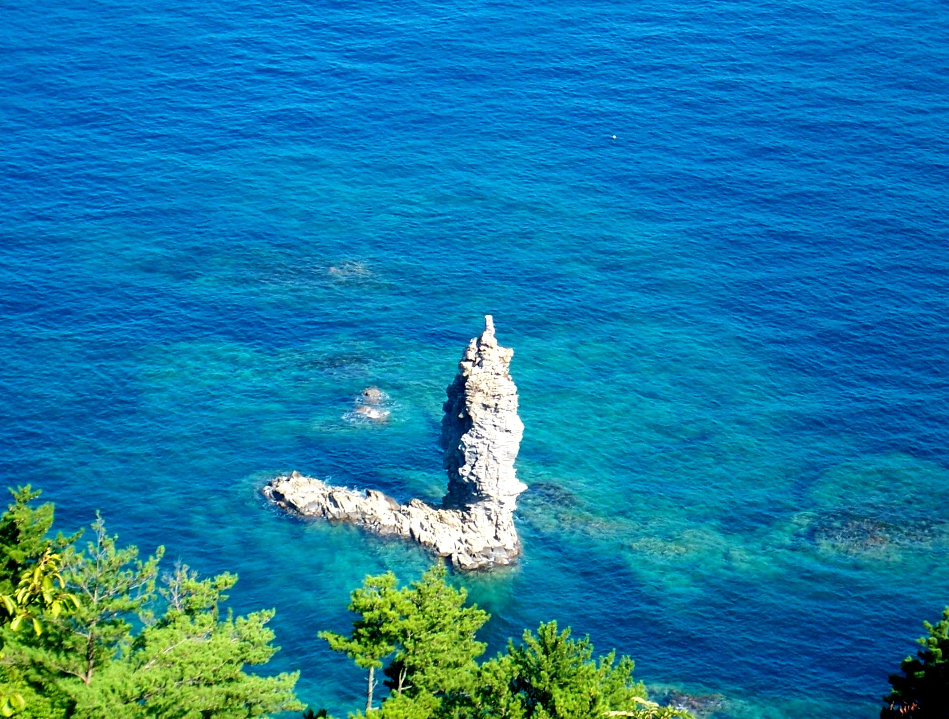 Rousoku Iwa (candle rock), Okinoshima, Shimane, Japan